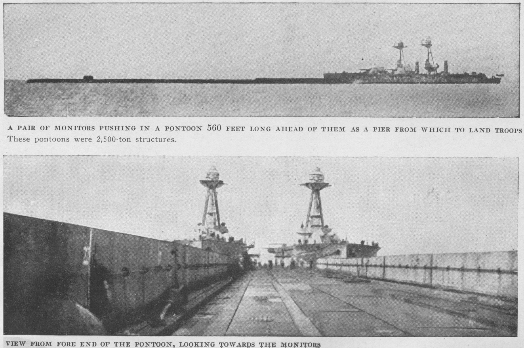 Landing pontoon lashed between two monitors.